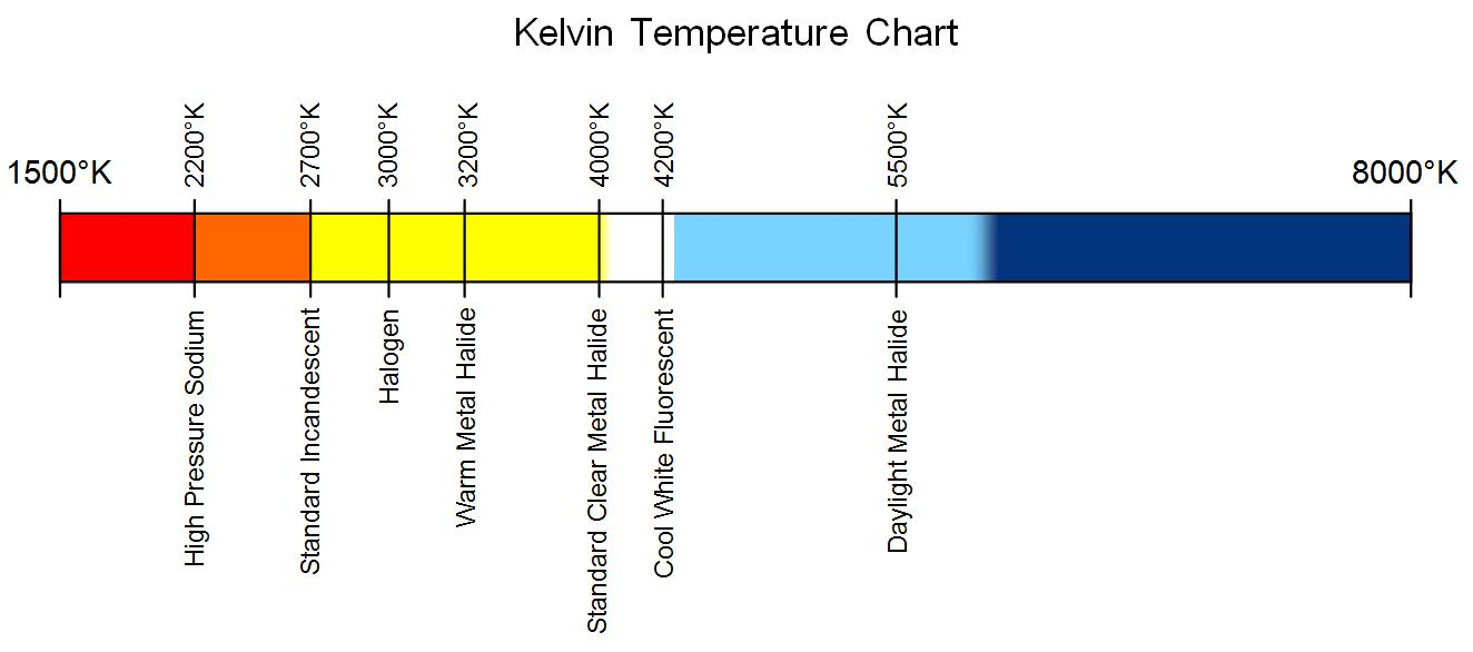 Kelvin Temperature Chart